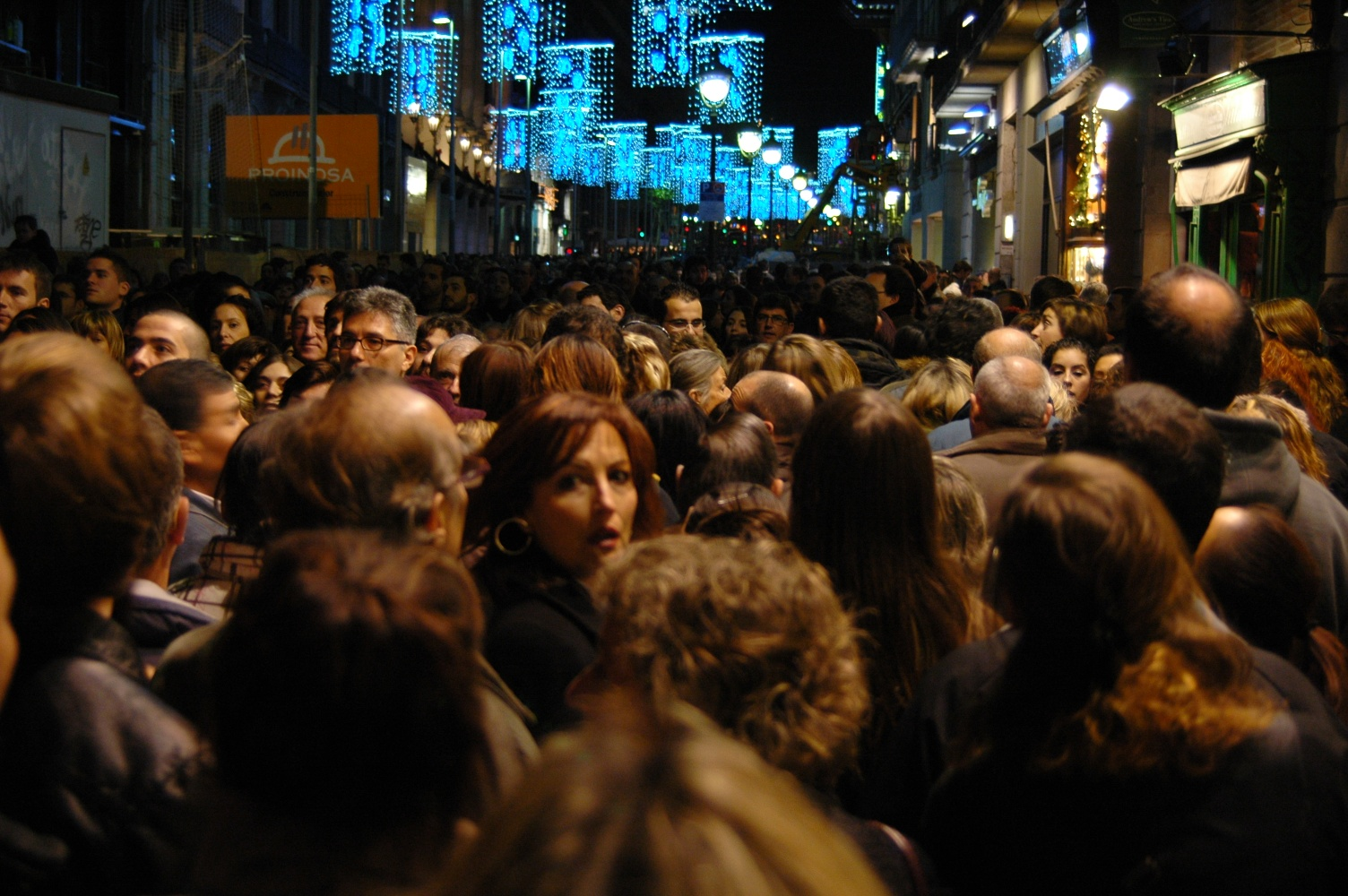 Overcrowded